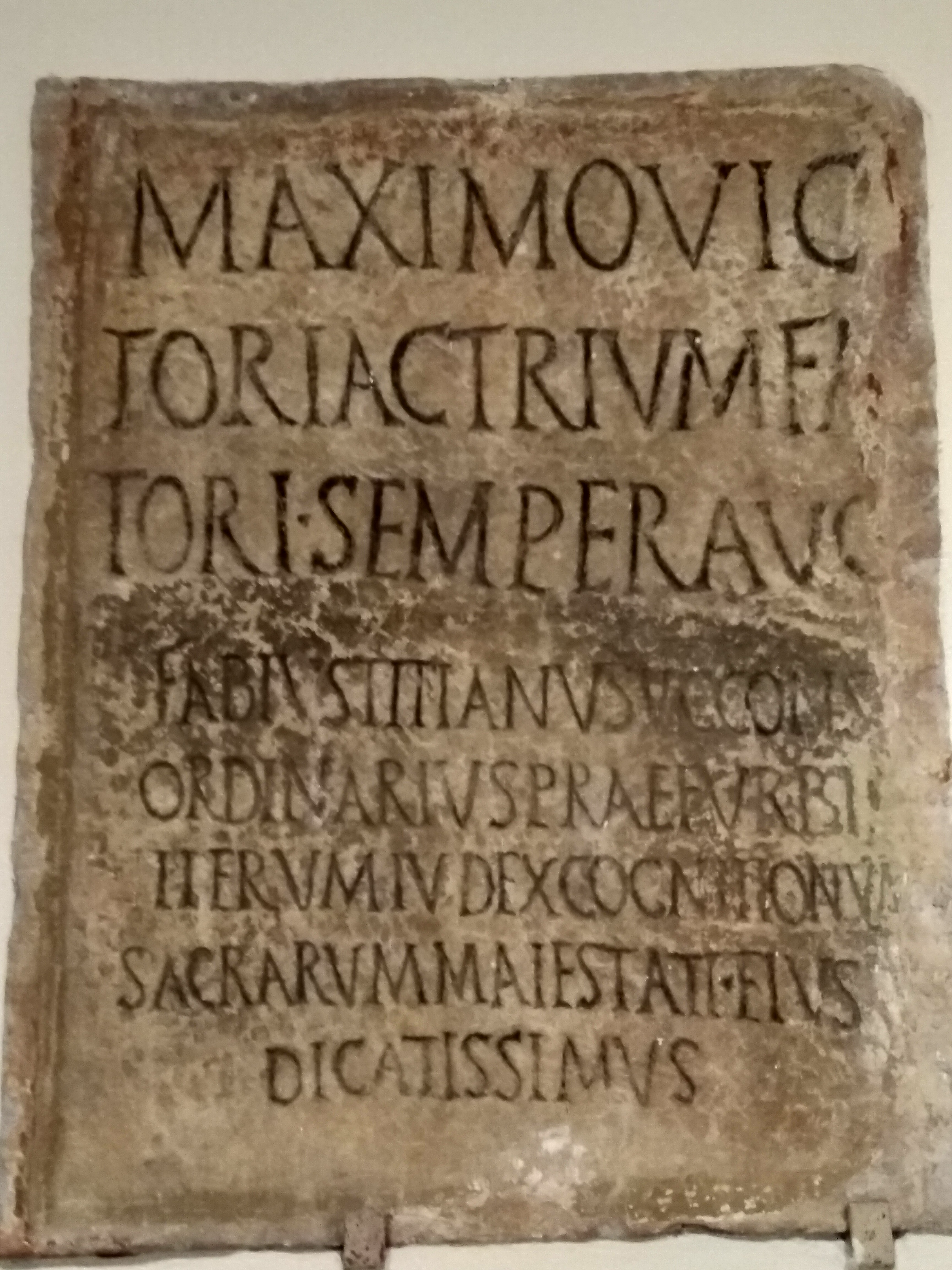 Found on the Aventine, in the vineyard of the Jesuits, probably from the Baths of Decius Capitoline Museums, 2a sala terrena a destra, inserted into a wall (inv. 7152) CIL 06, 01167